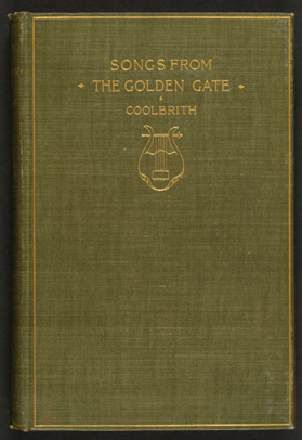 COOLBRITH, Ina [Donna] (1841-1928). Songs from the Golden Gate.